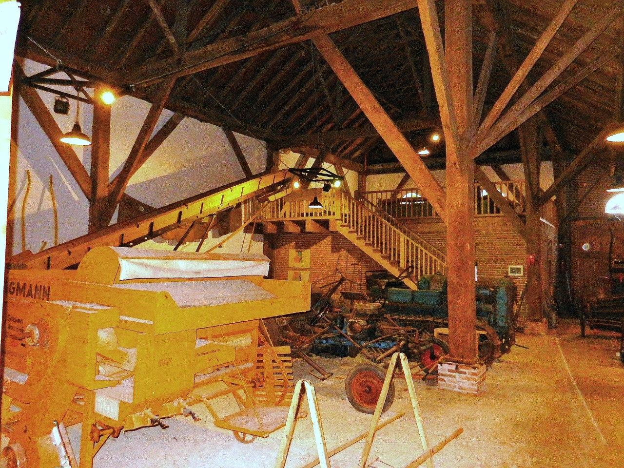 Wiemannshof Gulf